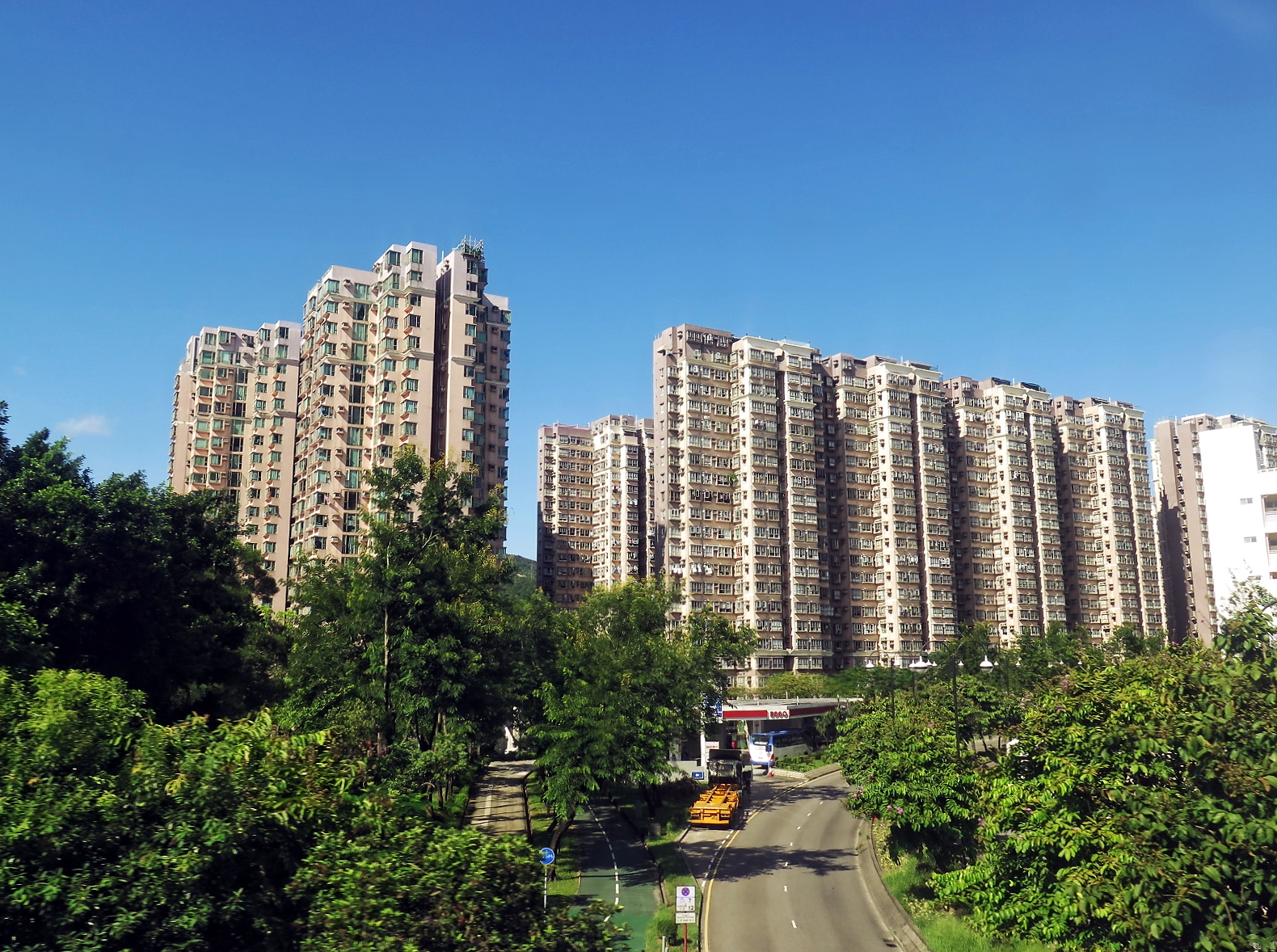 Serenity Park